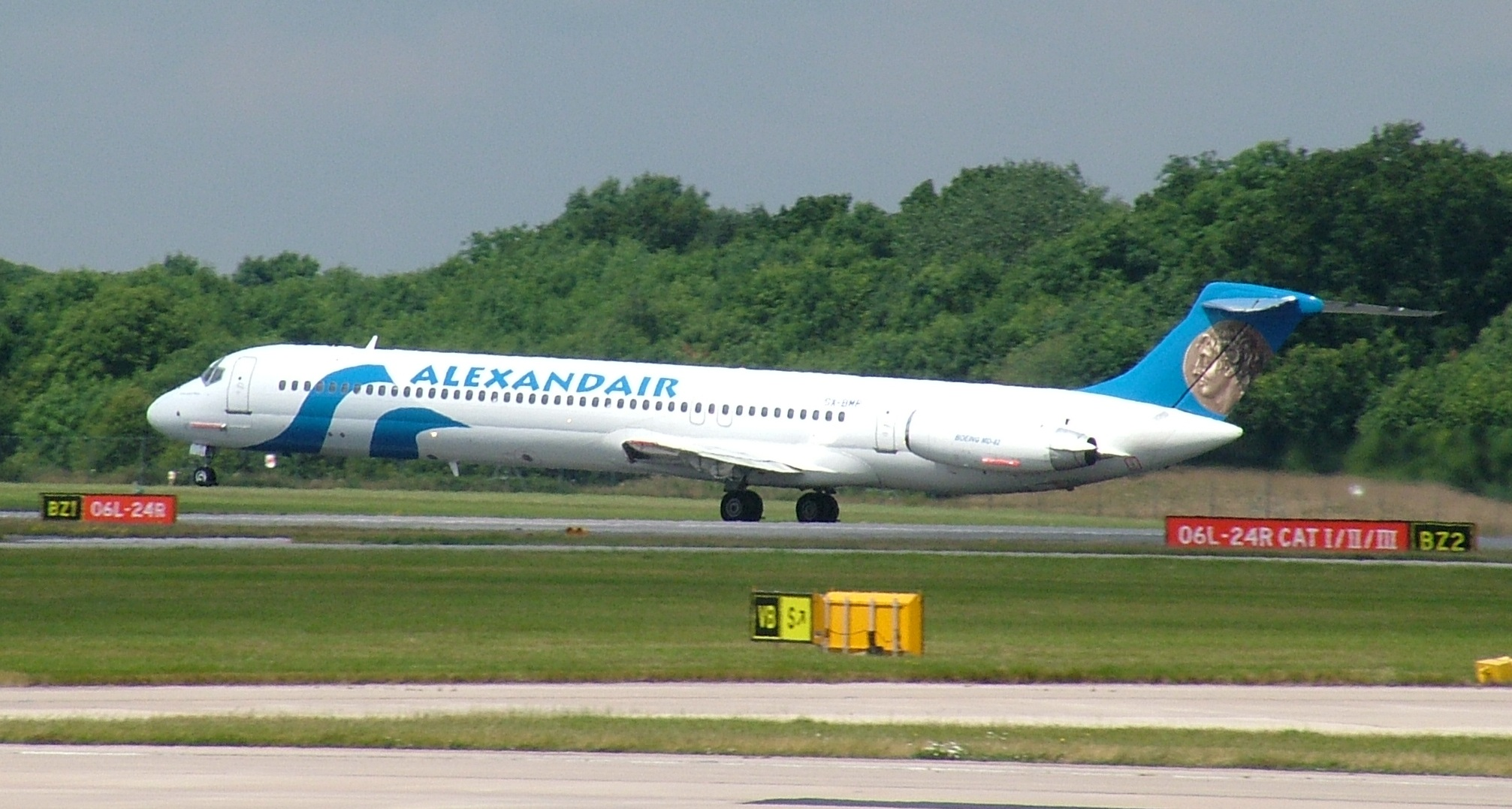 Alexandair MD82 landing at Manchester, July 2005